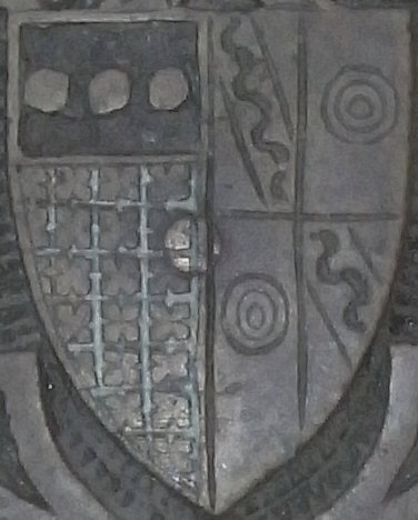 Arms of Sir Maurice Russell (2 February 1356 – 27 June 1416), from his monumental brass in St. Peter's Church, Dyrham, South Gloucestershire, England. Impaling arms of Childrey, for his wife Isabel Childrey: Quarterly 1st & 4th: On a bend a riband wavy (otherwise stated perhaps as: A bendlet wavy couped cottised 2nd & 3rd: Three annulets one within the other, possibly the arms of Gorges (ancient)